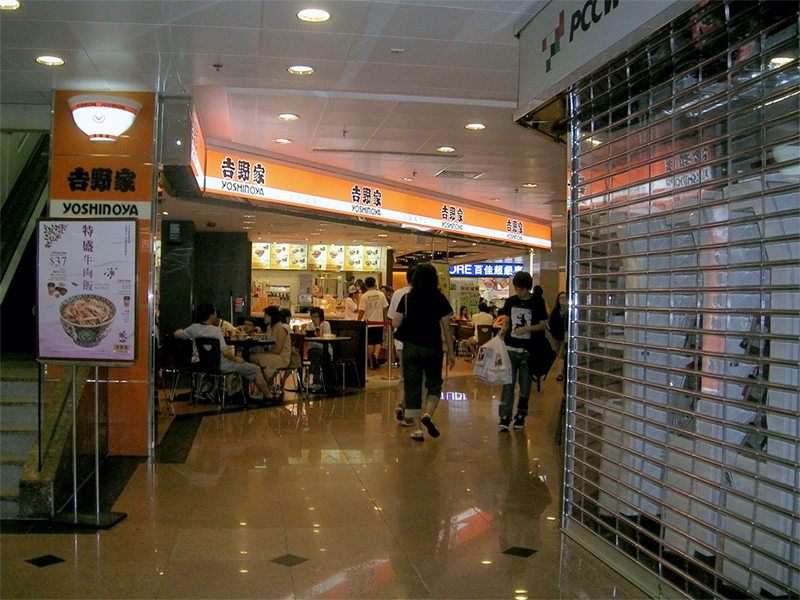 Picture shows the PARKnSHOP/Yoshinoya area of Sceneway Plaza.